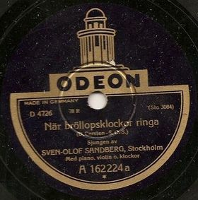 Single by Sven-Olof Sandberg: När bröllopsklockor ringa.